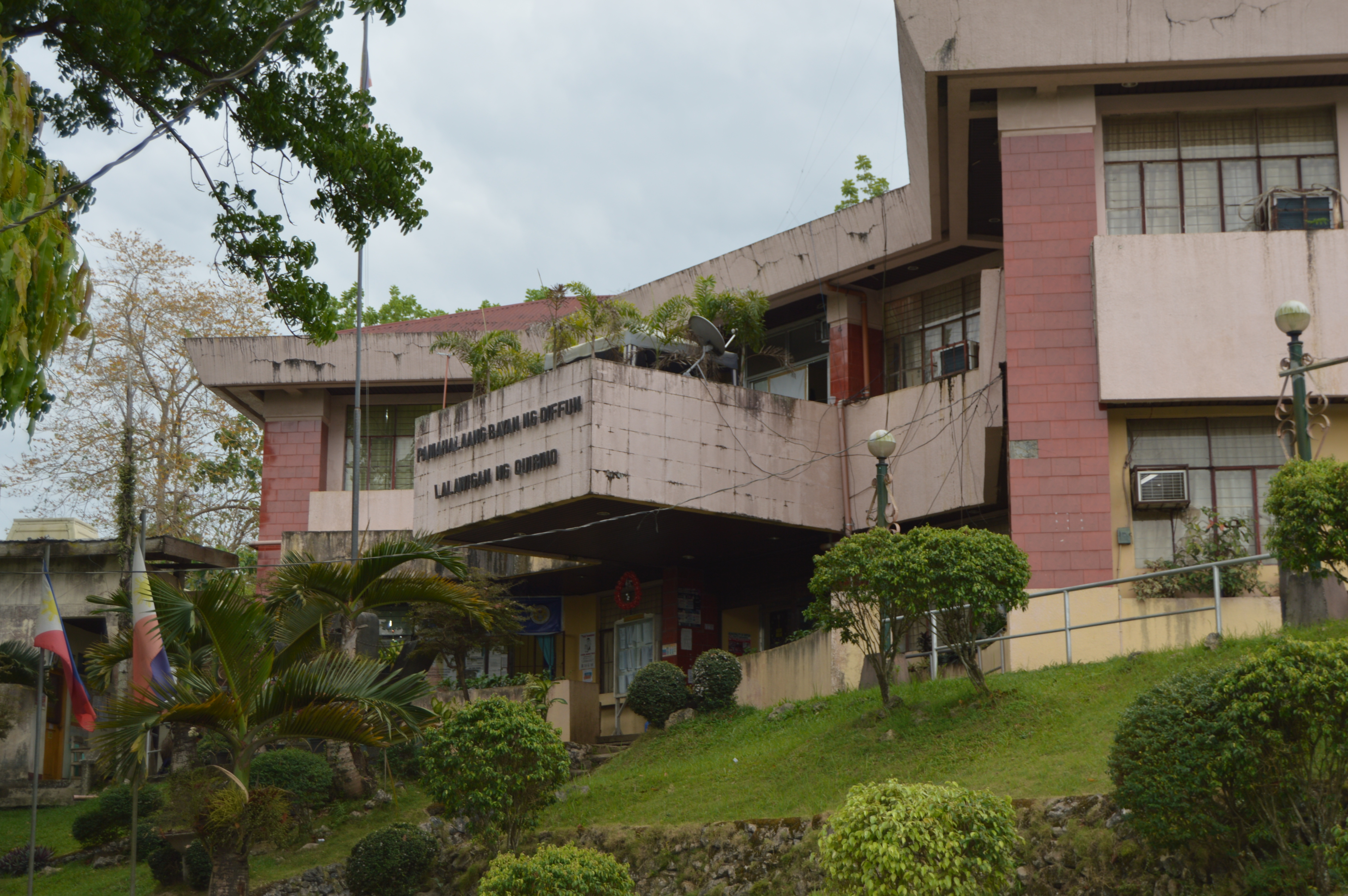 Photo shows the facade of the Diffun Town Hall, the seat of the municipal government of Diffun, Quirino Province.